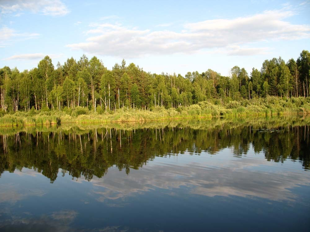 Russia, Oryol Oblast. Central Lake, Orlovskoye Polesye National Park, Oryol Oblast.